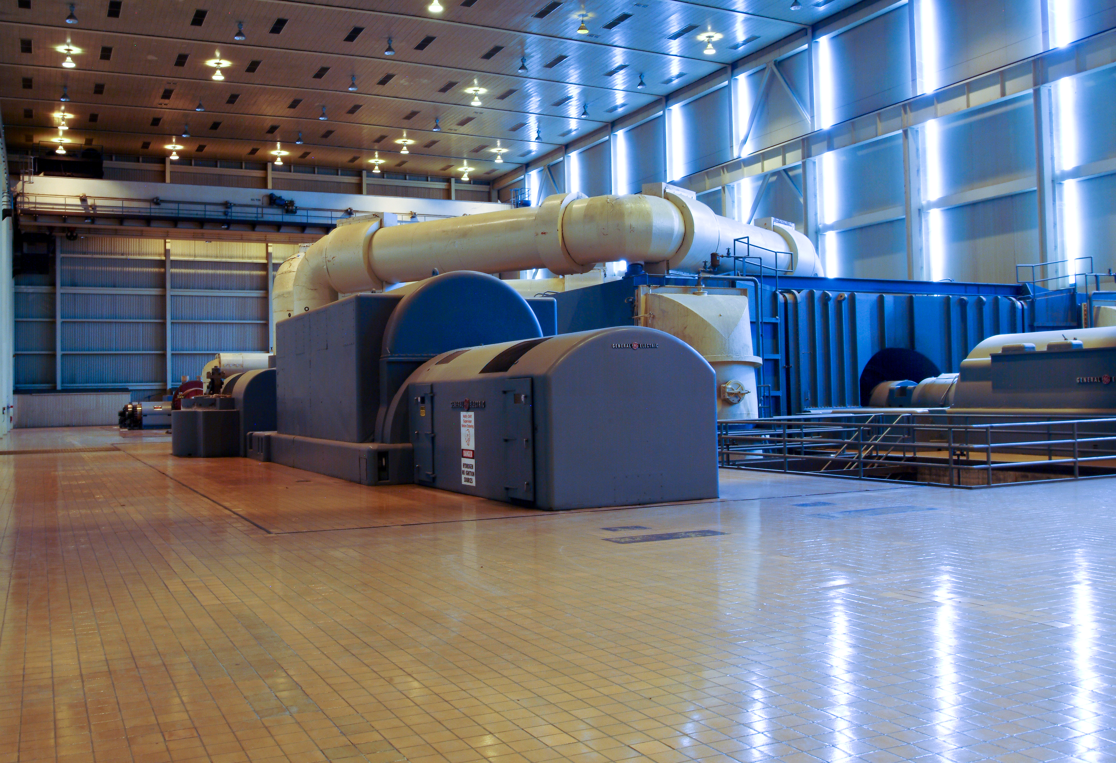 Bull Run Fossil Plant